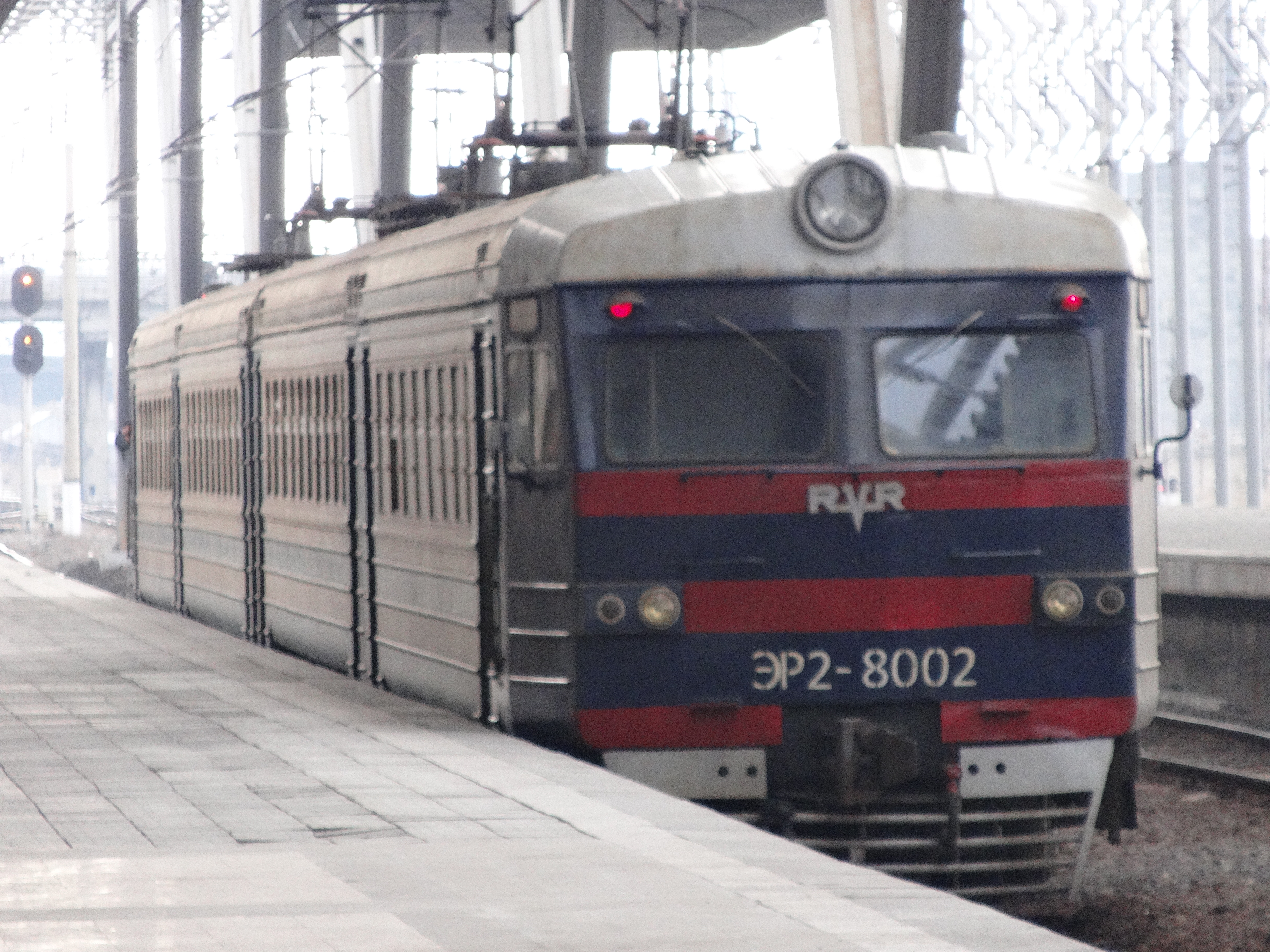 Train of Yerevan Metro at David of Sasoun metro station